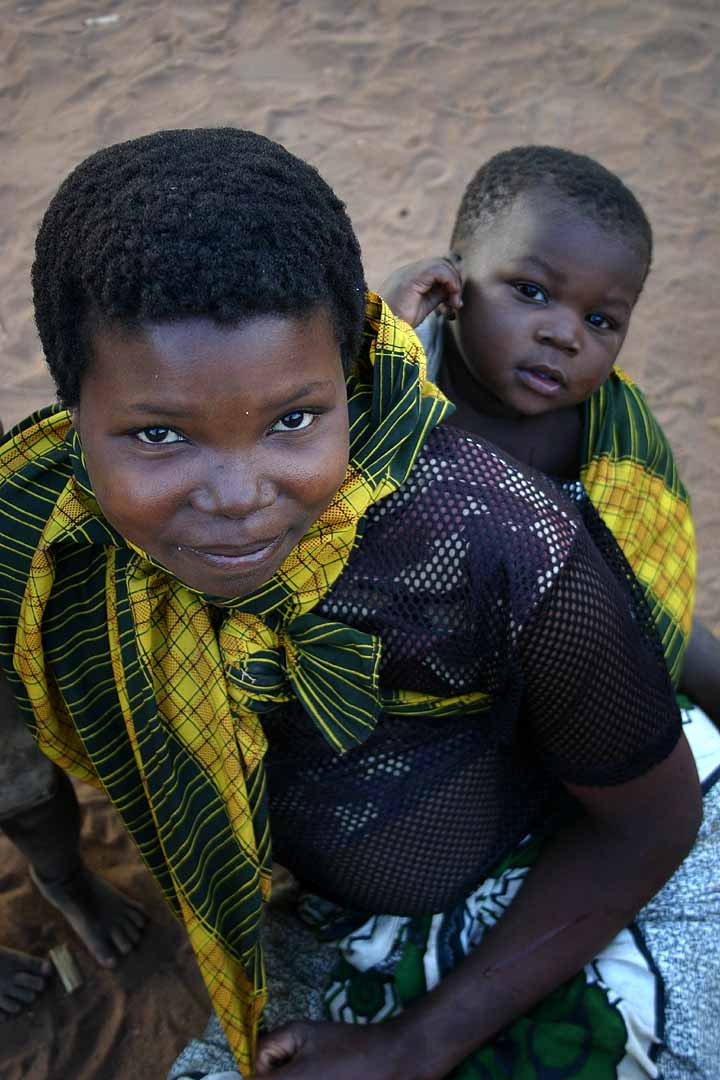 Makhuwa mother and child in Nampula, Mozambique